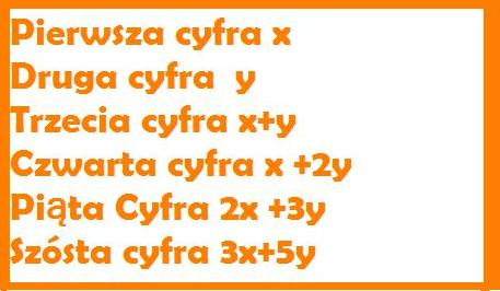 Excersise from the Mathematical Kangaroo